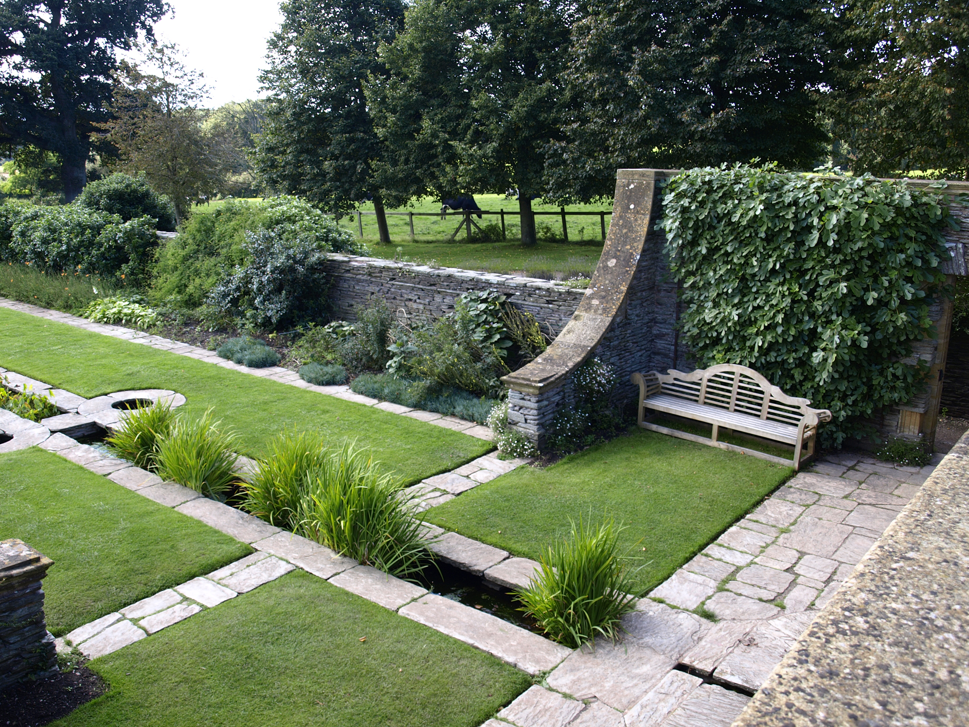 Hestercombe Gardens, Taunton, Somerset, UK. Designed by Sir Edward Lutyens and established in 1904-08.